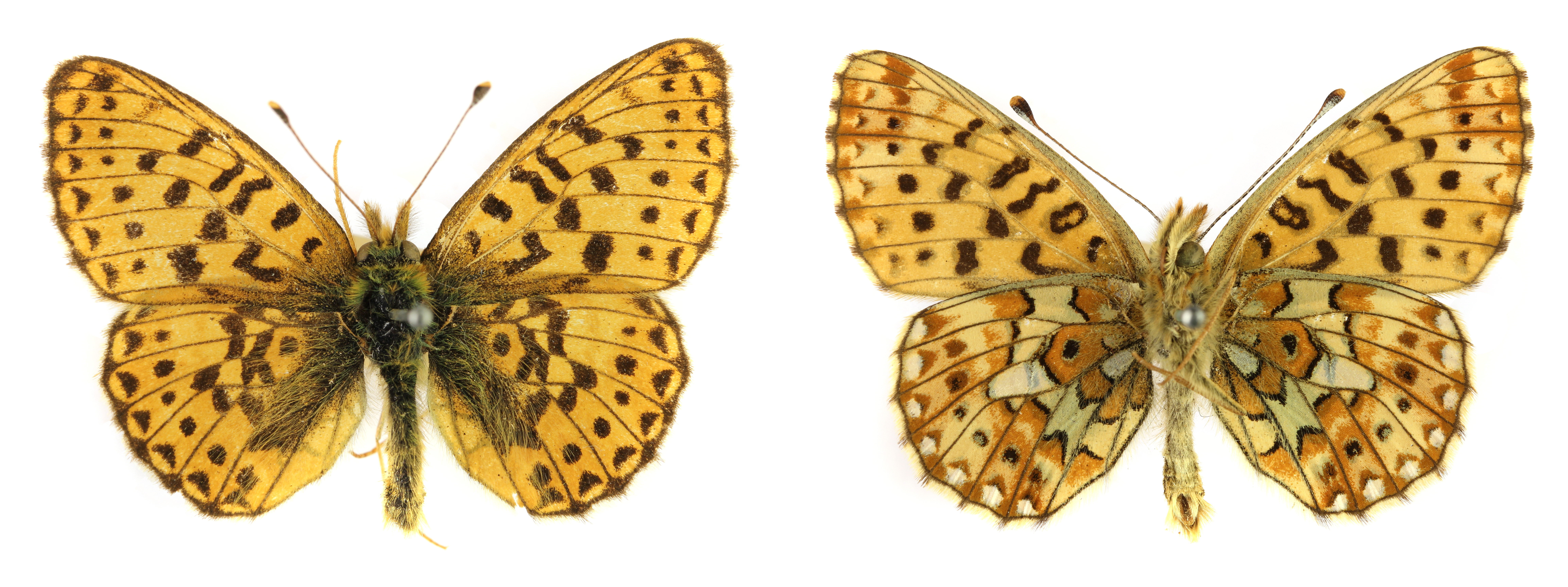 Boloria euphrosyne insect collection SLU, Uppsala